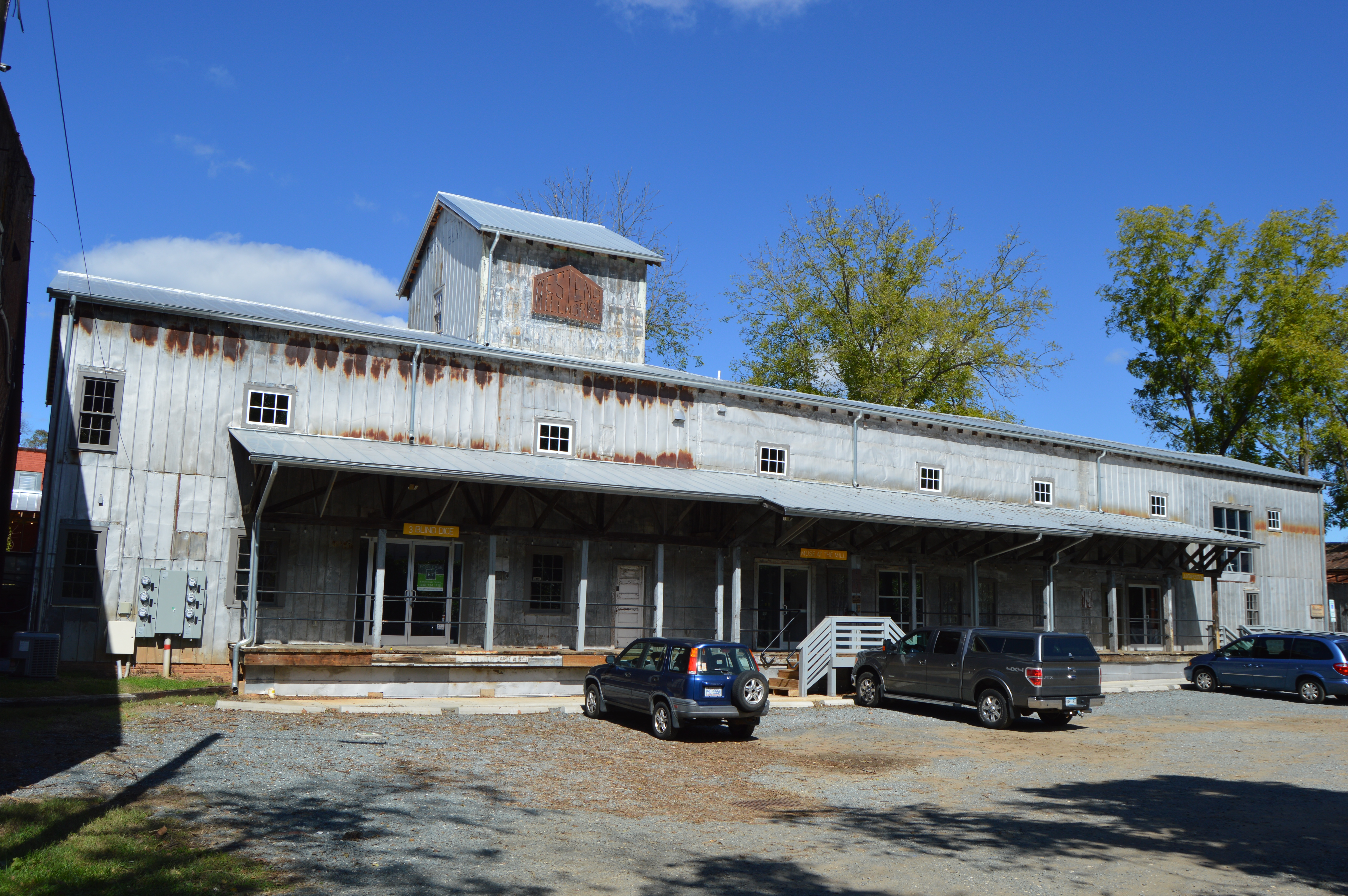 Front of the Hoots Milling Company Roller Mill, located at 1151 Canal Drive in Winston-Salem, North Carolina, United States. Built in 1935, it is listed on the National Register of Historic Places.